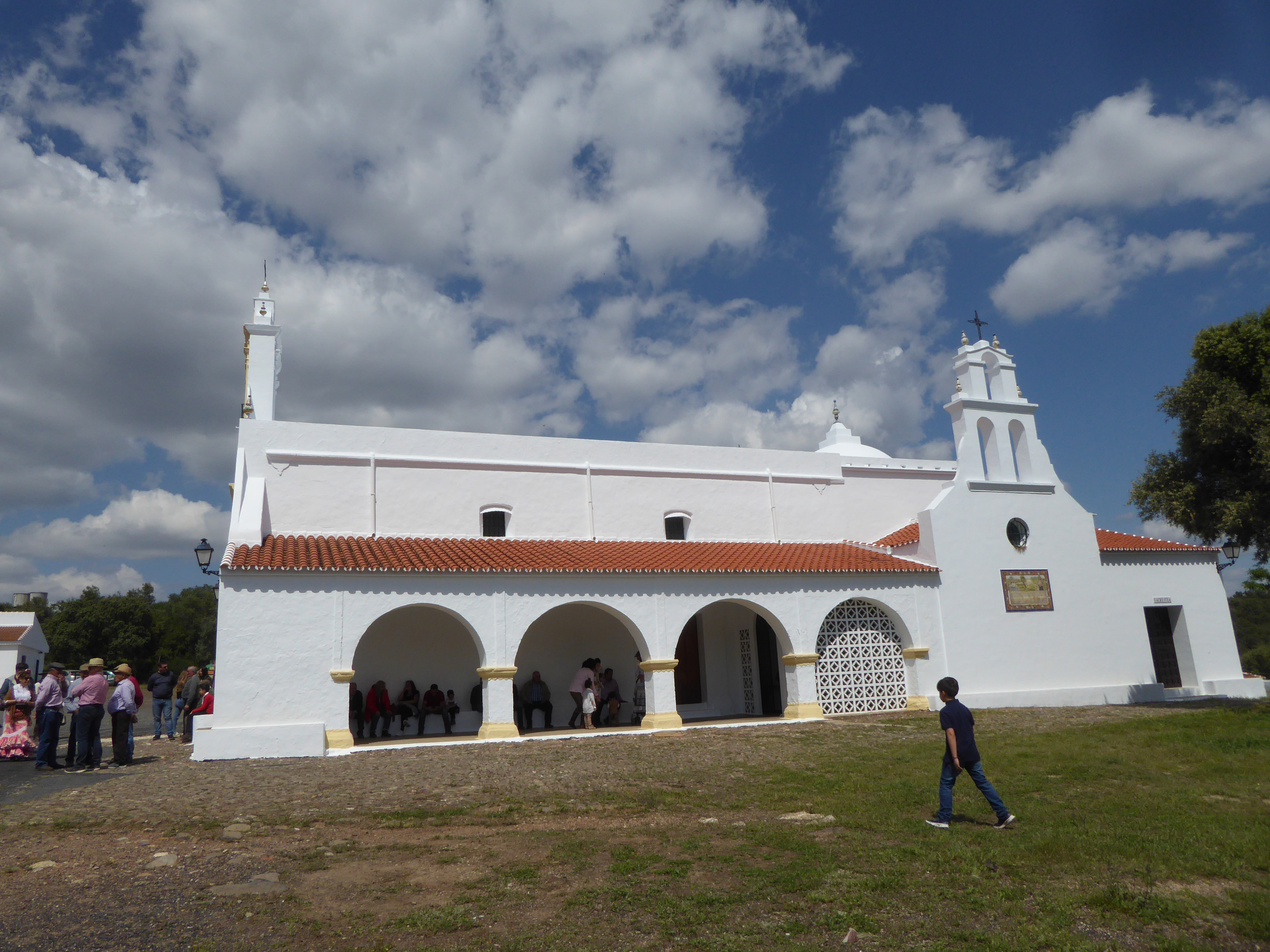 Sanctuary of Our Lady of Piedras Albas, El Almendro, Huelva, Spain, year 2019.